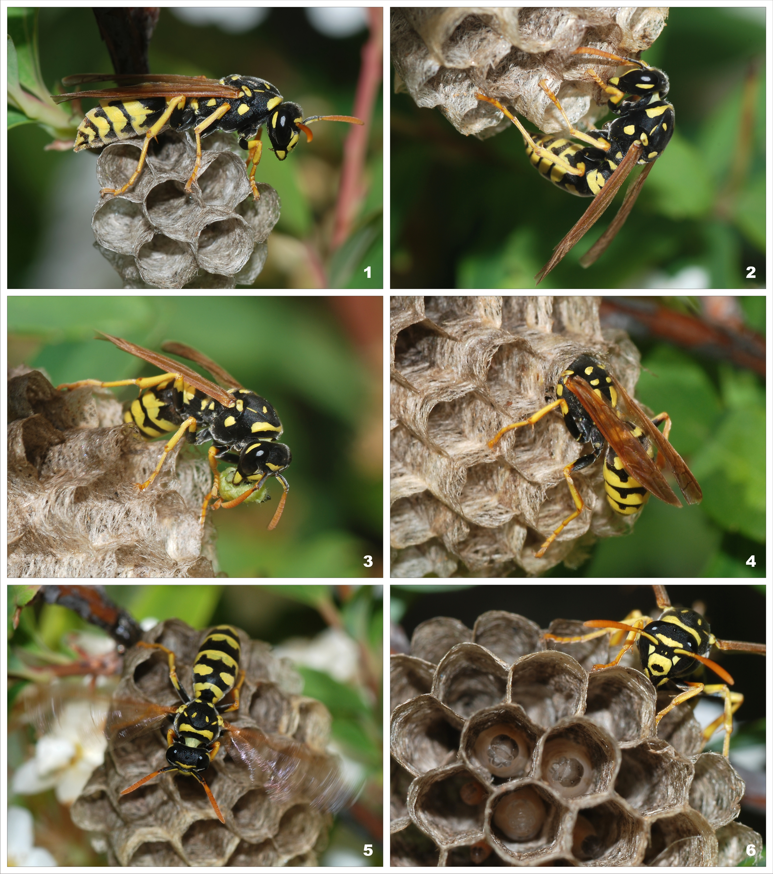 A young paper wasp queen (Polistes dominula) is founding a new colony. The nest was made with wood fibers and saliva, and the eggs were laid and fertilized with sperm kept from last year. Now the wasp is feeding and taking care of her heirs. In some weeks, new females will emerge and the colony will expand. The timespan between the older and more recent photos is about one month 1 - The nest with only a few cells. * 2 - New cells being made with mashed fibers and saliva. * 3 - A caterpillar was caught and is being chewed to feed the larvae. * 4 - Feeding the larvae. * 5 - Using the wings as a fan to cool down the larvae. * 6 - The wasp guarding her heirs.